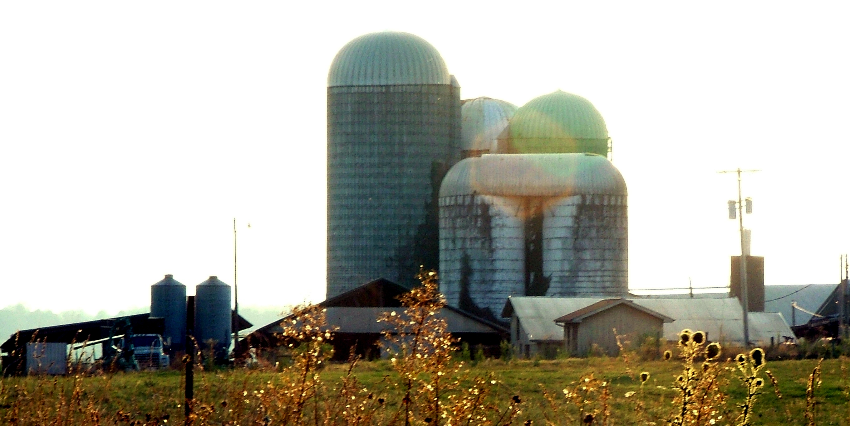 Dairy Farm near Buck Shoals Road in southern part of Yadkin County, North Carolina.